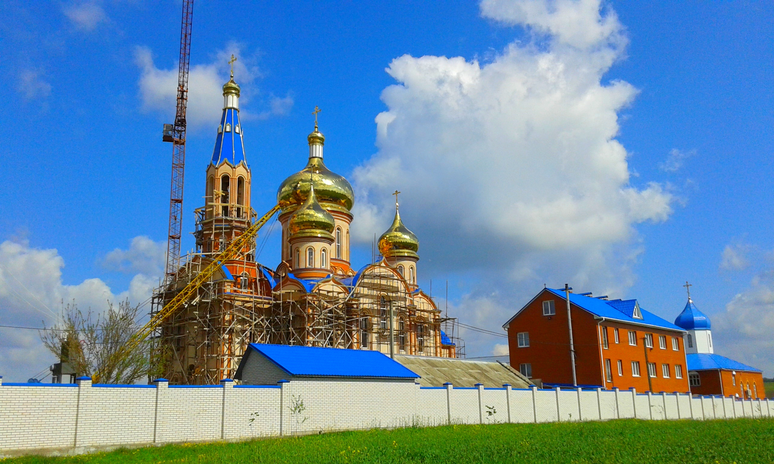 (01) WIKIPEDIA ST TRINITY BRAILIV ORTHODOX CATHEDRAL AT BRAILIV MONASTERY IN TOWN OF BAR VINNYTSIA REGION STATE OF UKRAINE 20150503